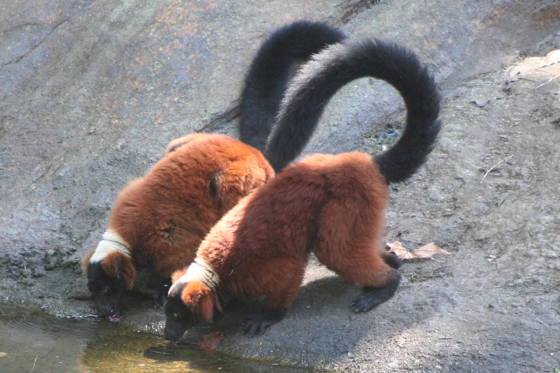 a pair of Red Ruffed Lemurs drinking at the North Carolina Zoo